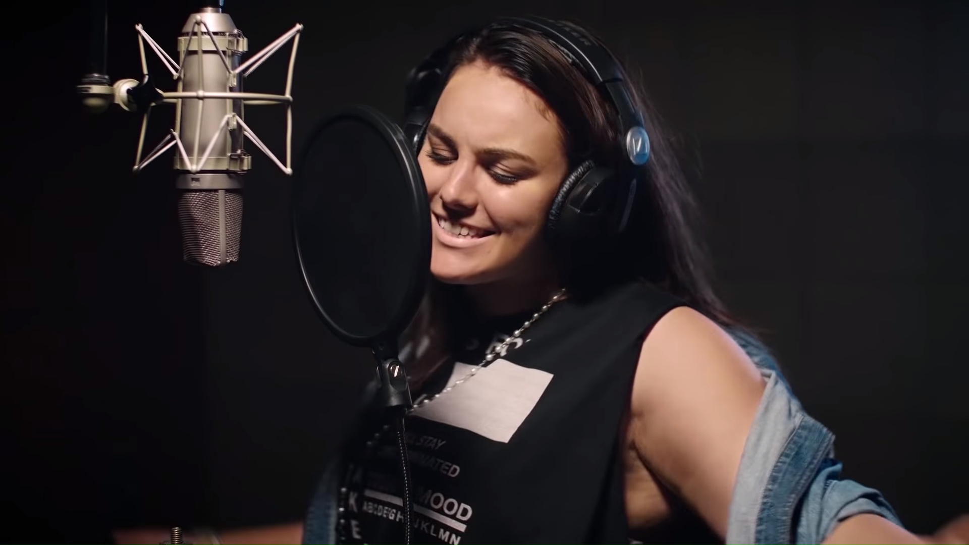 Ewa Farna – Cizí zeď